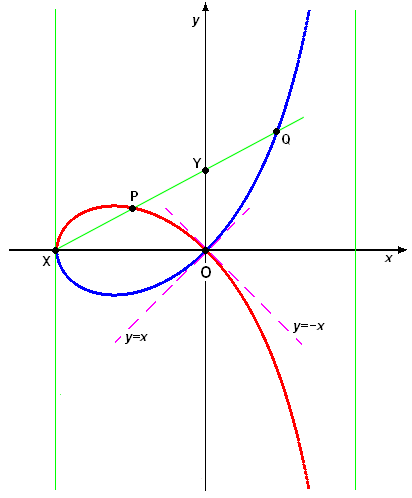 Construction of a strophoid